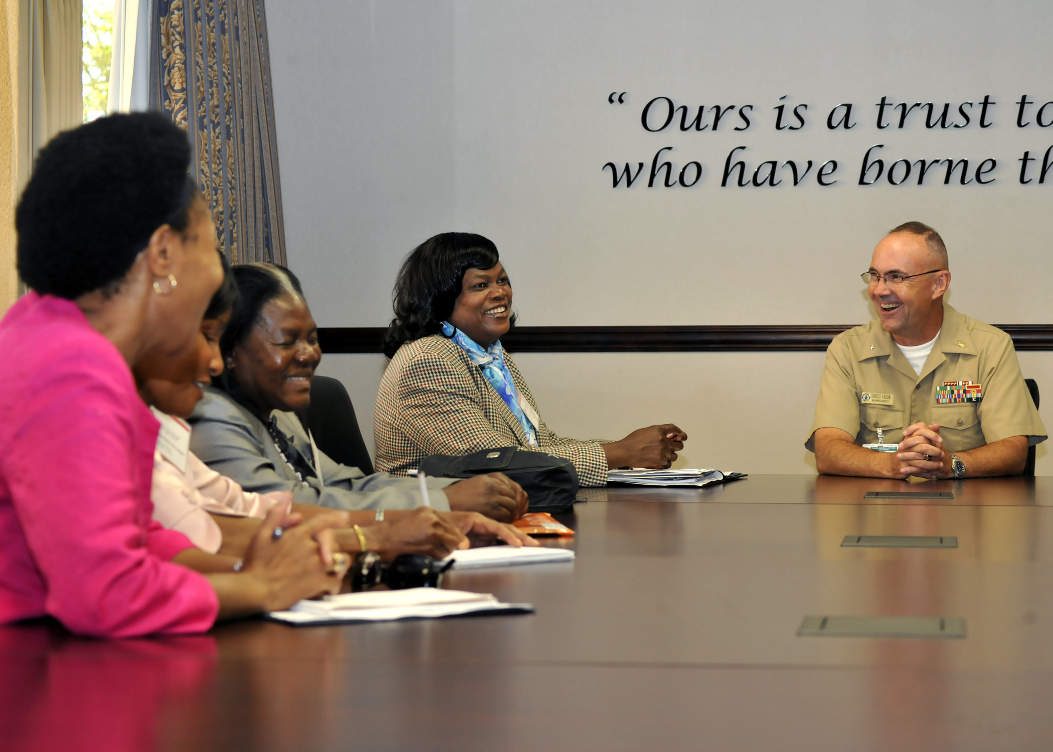 120716-N-UB993-015 SAN DIEGO (July 16, 2012) Commander of Naval Medical Center San Diego (NMCSD) Rear Adm. C. Forrest Faison III, speaks with Namibian Defense Force personnel during their visit to NMCSD. Deputy Minister of Namibian Defense, the Honorable Lempy Lucas (back left), and Namibian HIV and AIDS Prevention program officials traveled to San Diego to research ways to improve their program from Navy commands that have extensive knowledge and research in HIV and AIDS prevention. (U.S. Navy Photo by Mass Communication Specialist 1st Class Anastasia Puscian/Released)